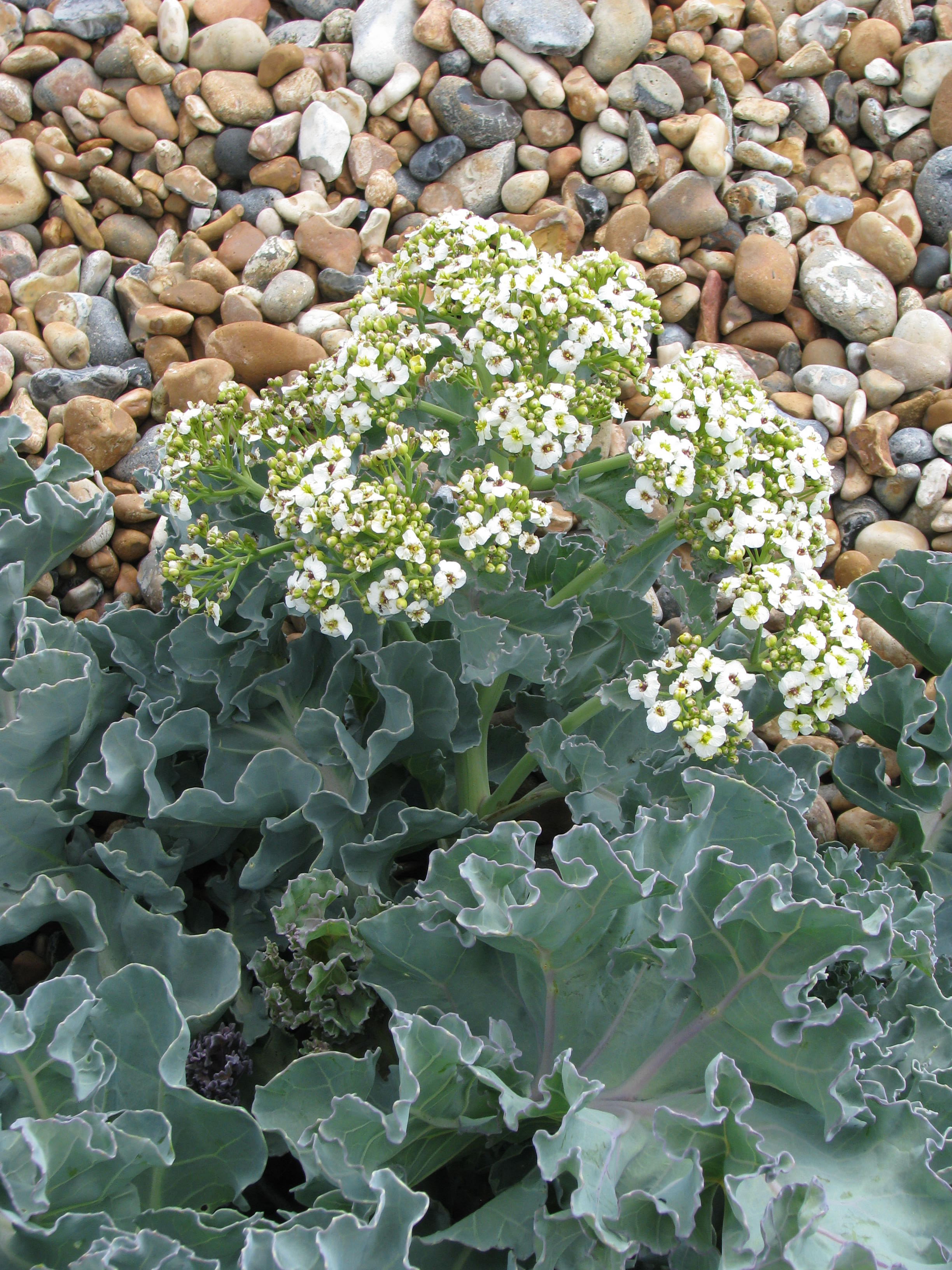 Crambe maritima